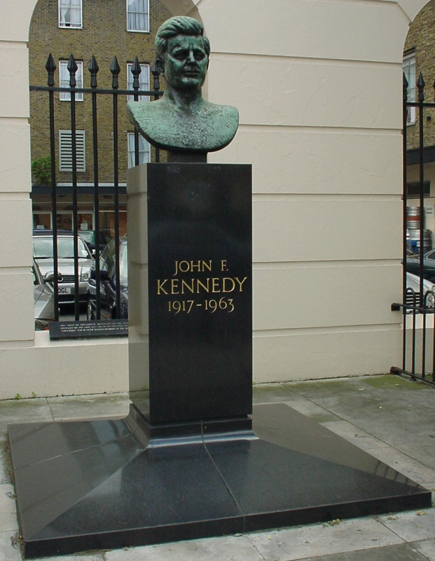 Bust Of John F Kennedy-Park Crescent London